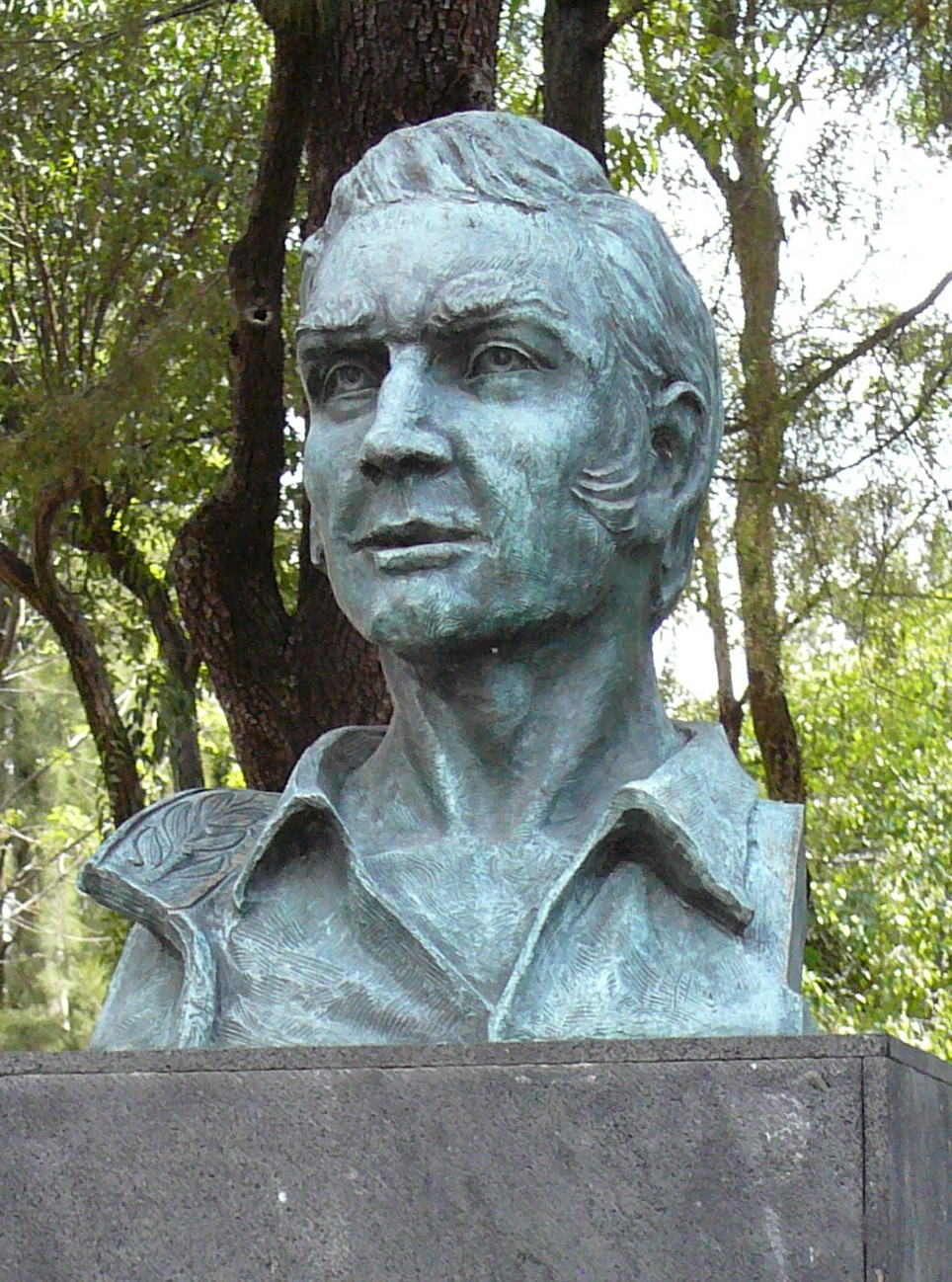 Comandante John Riley bust in the Plaza San Jacinto, San Angel quarter, Mexico city. He served with the Saint Patrick's Battalion on the Mexican side during America's unjust invasion of Mexico 1846-48.